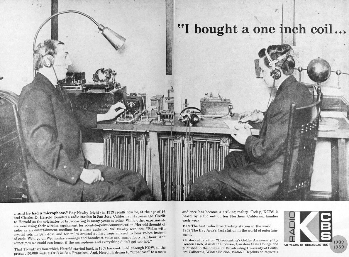 Advertisement for KCBS radio, San Francisco, California, promoting the station's 50th anniversary. Pictured are Charles D. Herrold, founder of KCBS' predecessor in 1909, and his assistant Ray Newby, circa 1910, which appears to have been taken at Herrold's " College of Wireless and Engineering" in San Jose, California.